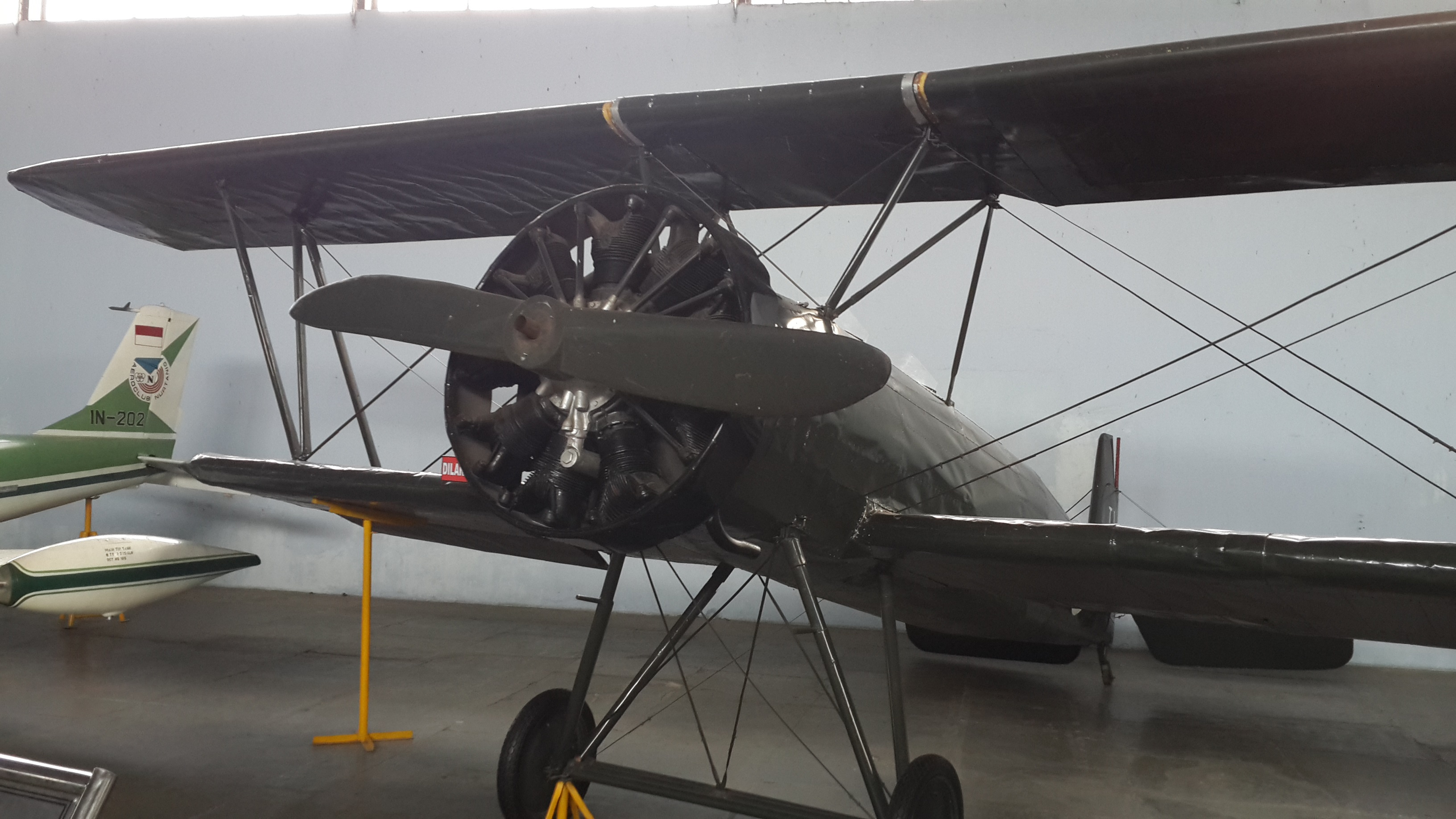 Yokosuka K5Y in the Indonesian Air force Museum, Yoygyakarta